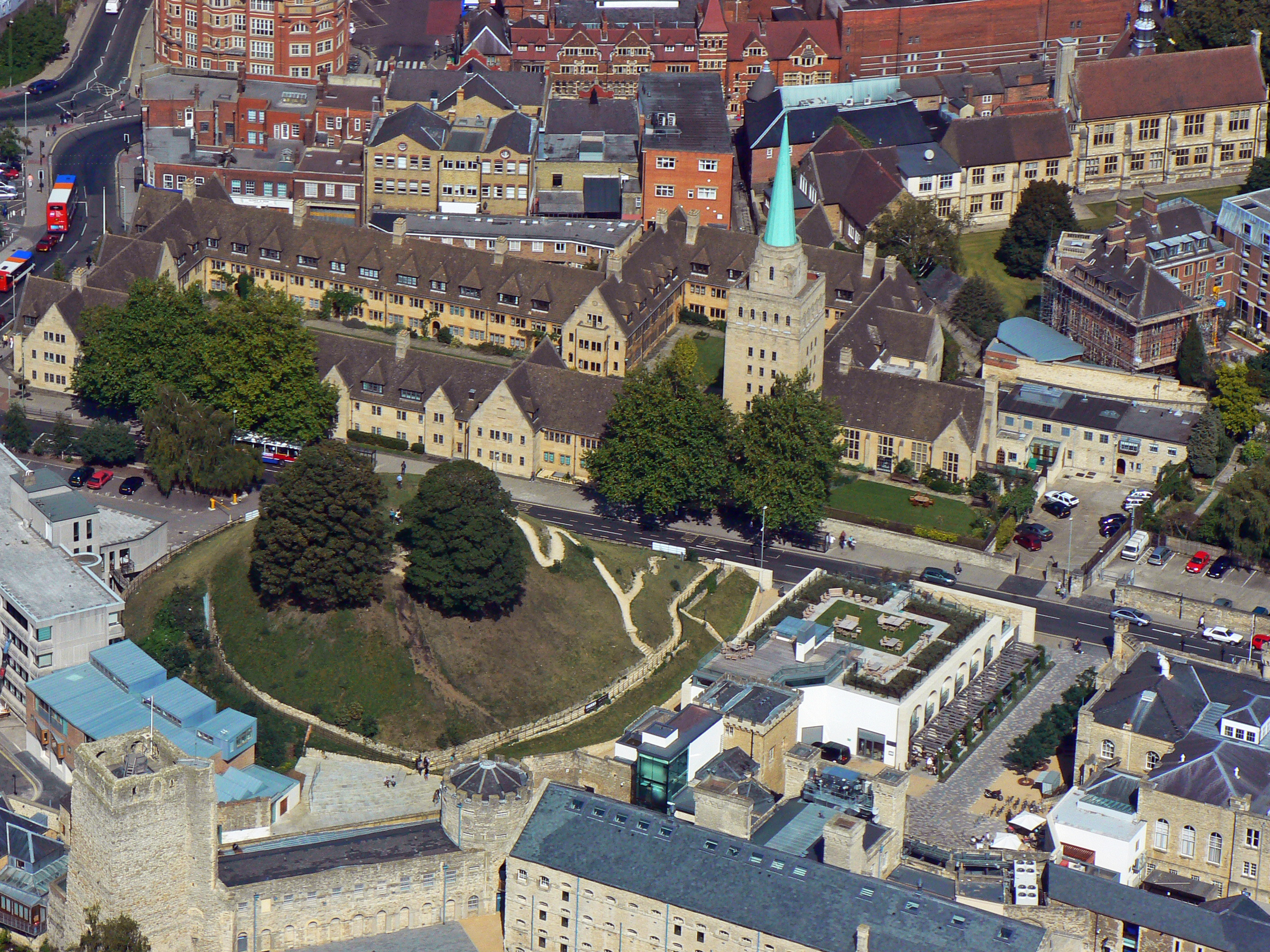 Aerial view showing Nuffield College, Oxford in the upper half of the photo and part of Oxford Castle on the lower half. Bottom left is D wing, with the square St George's Tower and round Debtors' Tower at either end. Between D wing and Nuffield College is the castle motte. Top left is part of St Peter's College.